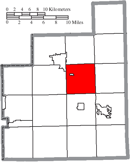 Map of the municipal and township boundaries of Geauga County, Ohio, United States, as of the 2000 census, with the location of Claridon Township highlighted. Township borders are shown only in unincorporated areas in order to differentiate incorporated and unincorporated areas more clearly.